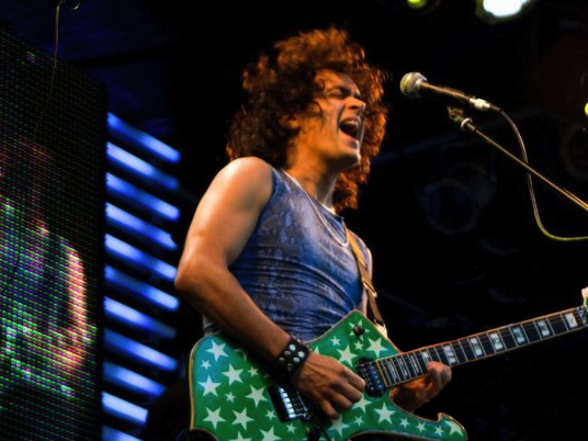 Anel Paz, guitarrista, ingeniero de grabación y productor artístico.